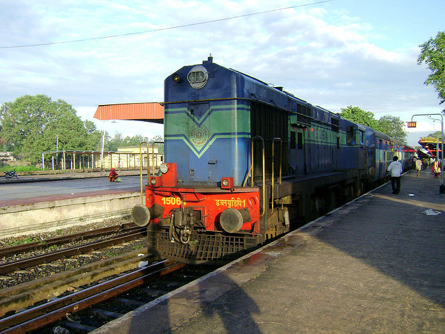 A WDP1 loco at Gudivada Train station with 17050 Machilipatnam Express, Krishna district, Andhra Pradesh